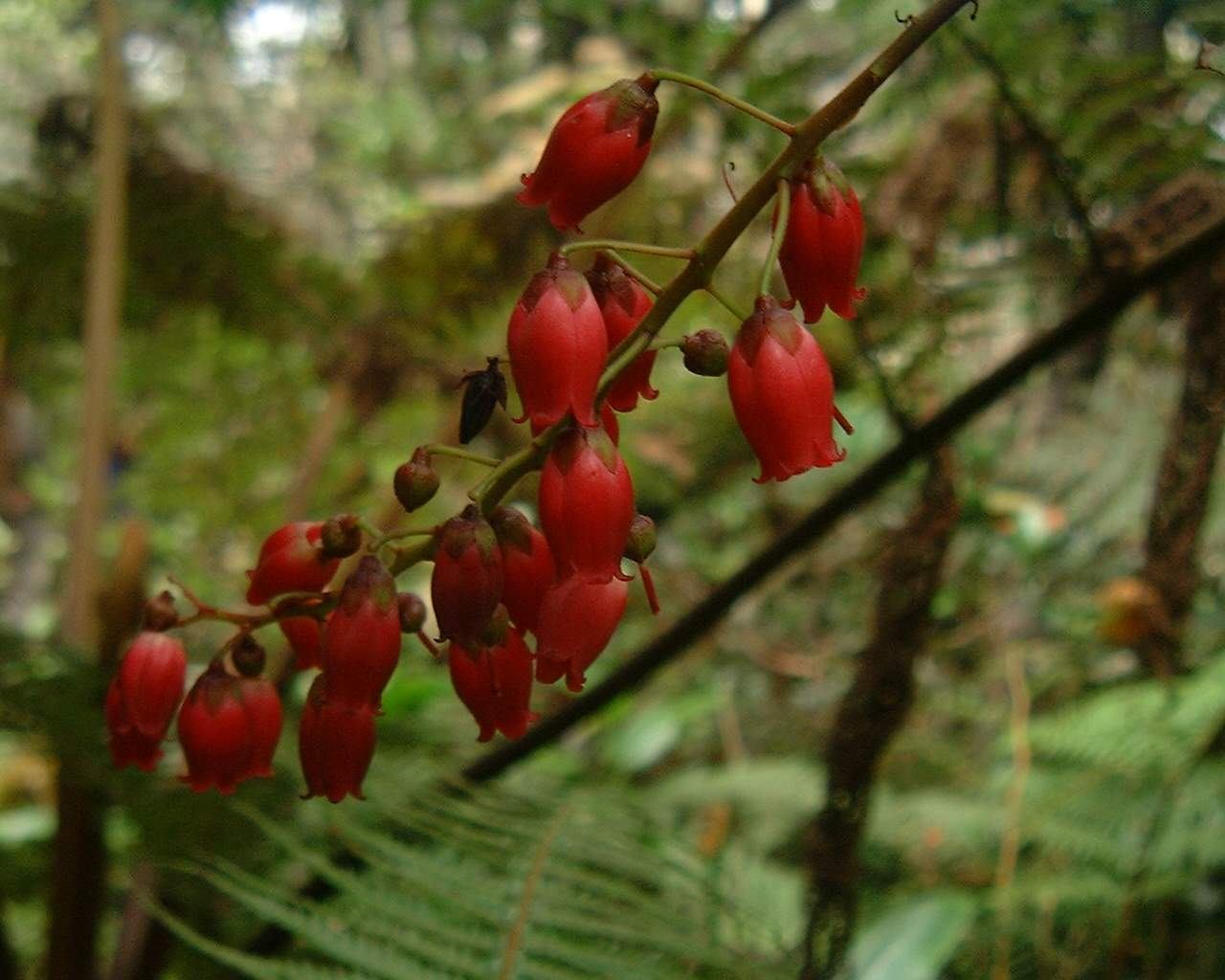 Agauria salicifolia - flowers (Réunion island)